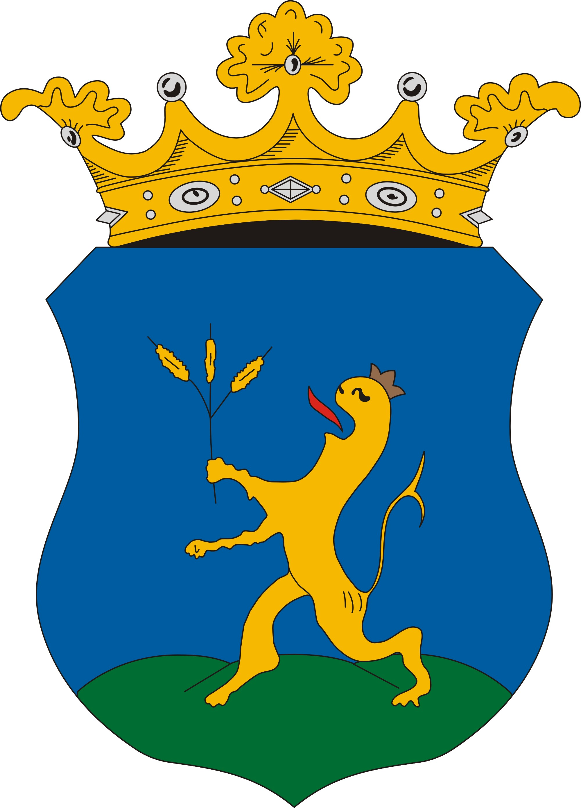 Coat of arms of Mátranovák, Hungary